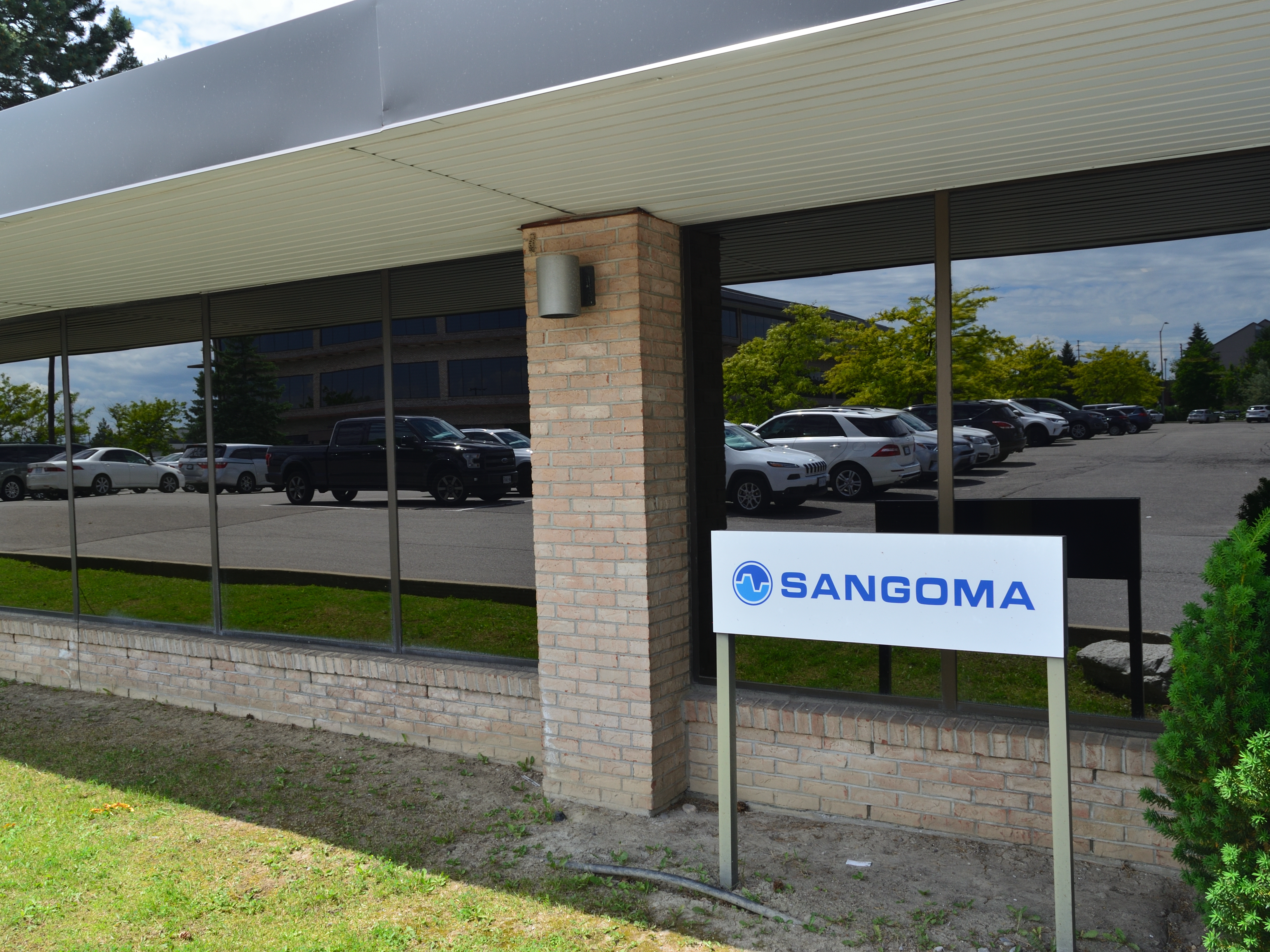 Sangoma Technologies